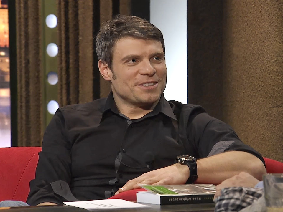 Czech surgeon Tomáš Šebek, worker for Médecins Sans Frontières